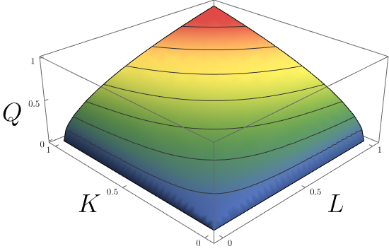 A two goods Cobb Douglas production function with inscribed isoquants